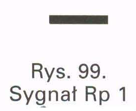 Polish railway signal Rp 1